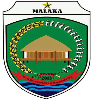 Official seal of Malaka Regency.